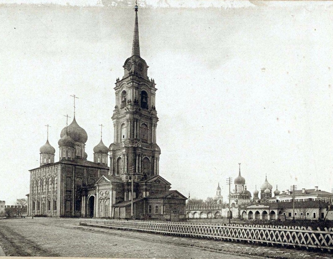 Assumption Cathedral in the Tula Kremlin